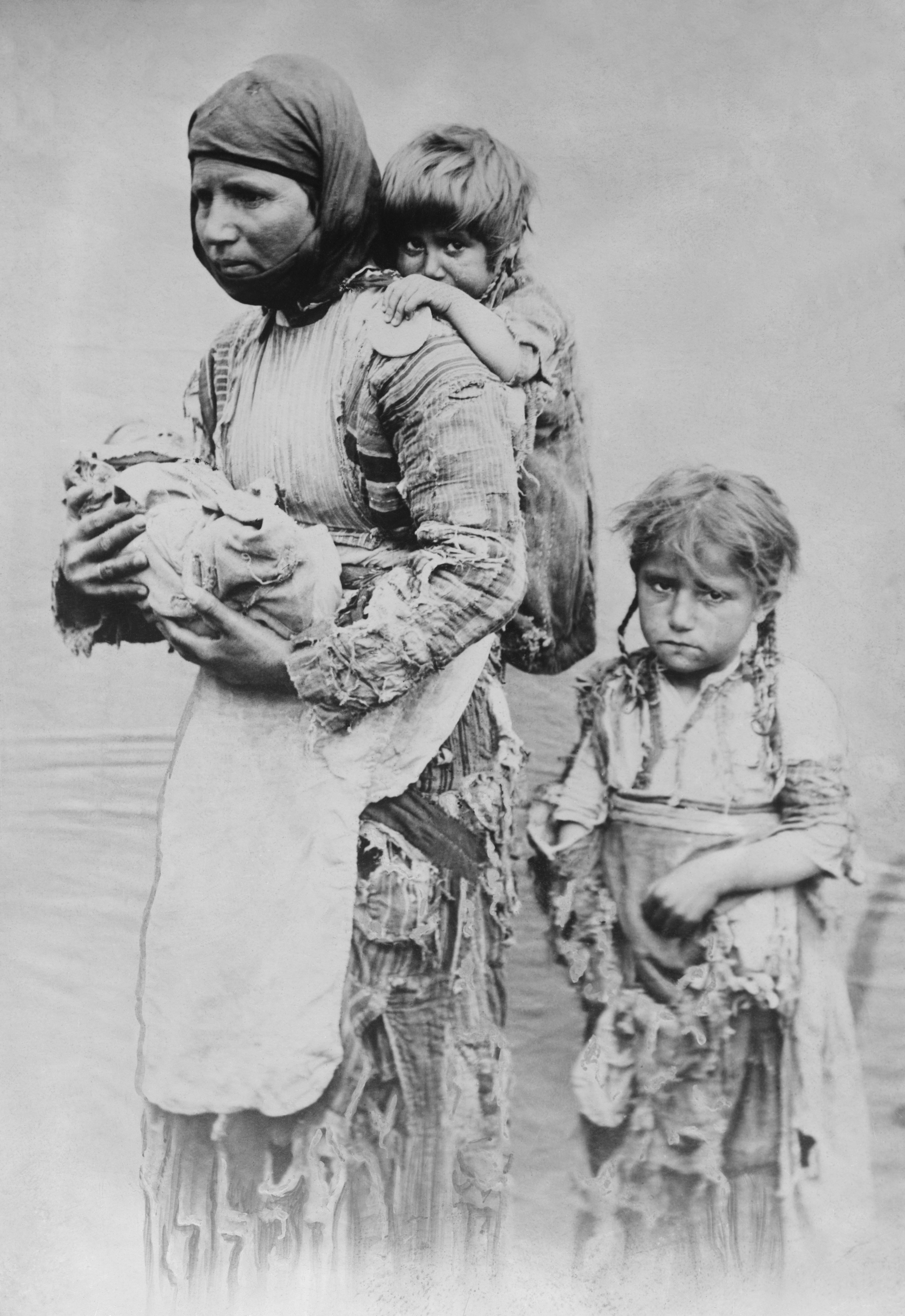 Photograph shows a poor, widowed Armenian woman and her children, Makarid (on her back) and Nuvart (standing next to her). In 1899, after the murder of her husband in the aftermath of the Armenian Massacres of 1894-1896, the family walked from their home in the Geghi region to Kharpert (Harput), eastern Anatolia (Turkey) seeking help from missionaries. Photograph was published in Helping Hands Series Magazine (Armenian Relief Committee) in December 1900 and an image of Nuvart wearing the same clothes appears in the December 1899 issue of the same publication. (Source: http